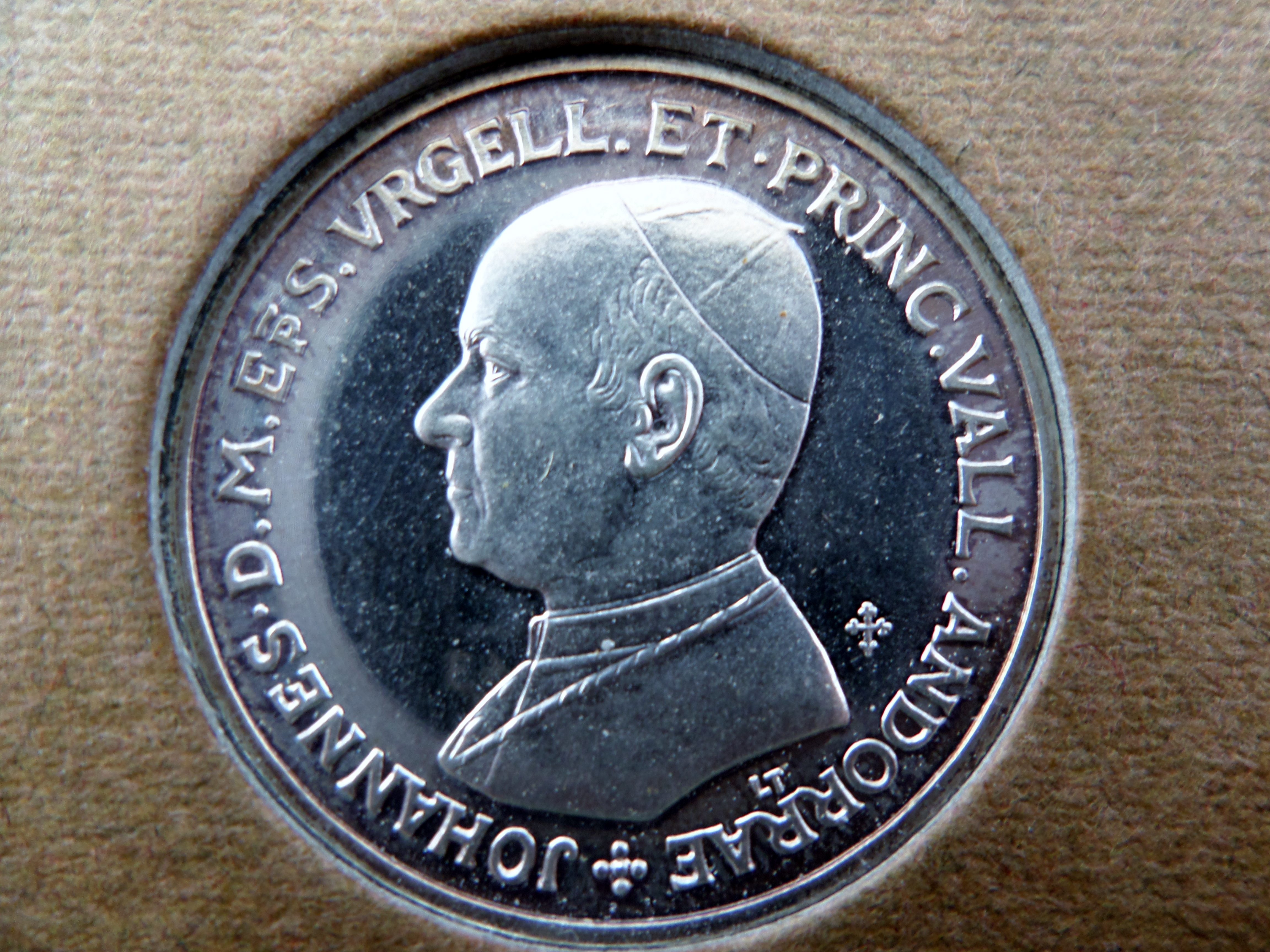 Principality of Andorra - 1980. 1/2 Escut (1500 Pesetas) 1980 Johannes - Bishop of Urgell. Latin variety. Obverse.